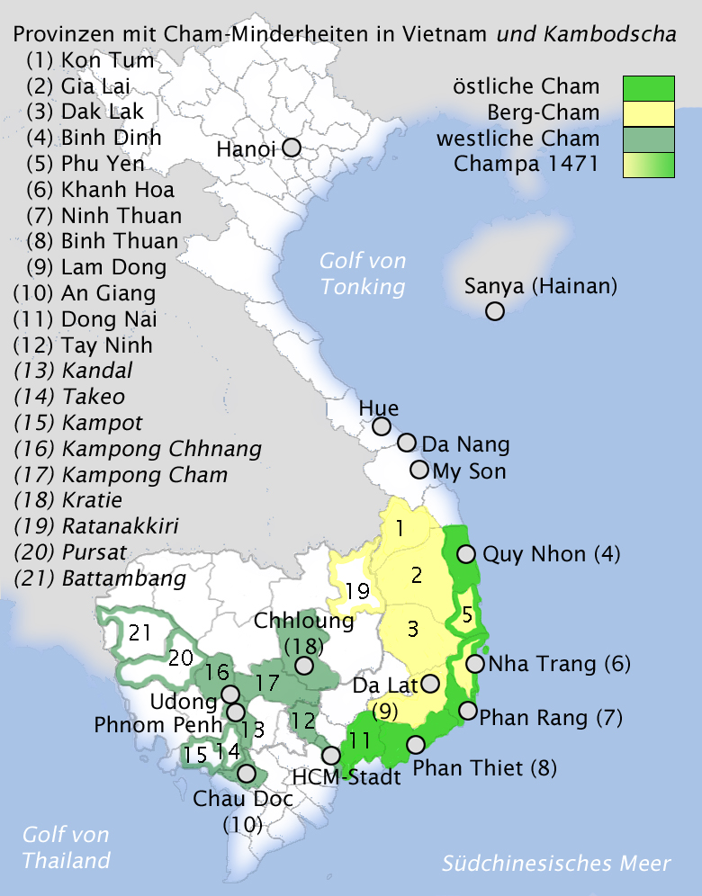 Vietnamese and Cambodian provinces with Cham minority (up to 5 per cent) light-green: Eastern Cham yellow: Mountain Cham dark-green: Western Cham yellow and light-green: Champa 1471